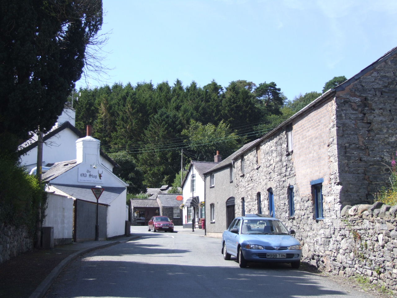 Centre of Llangernyw village, Conwy County, Wales.